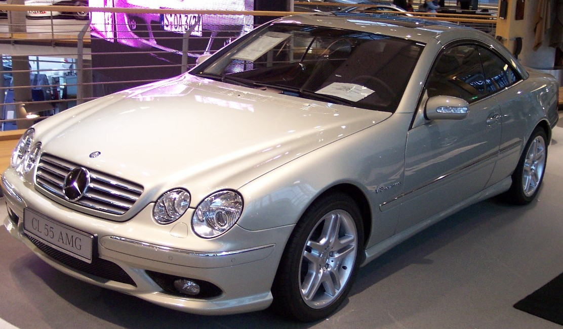 Silver Mercedes-Benz CL55 AMG Kompressor coupé (C215)